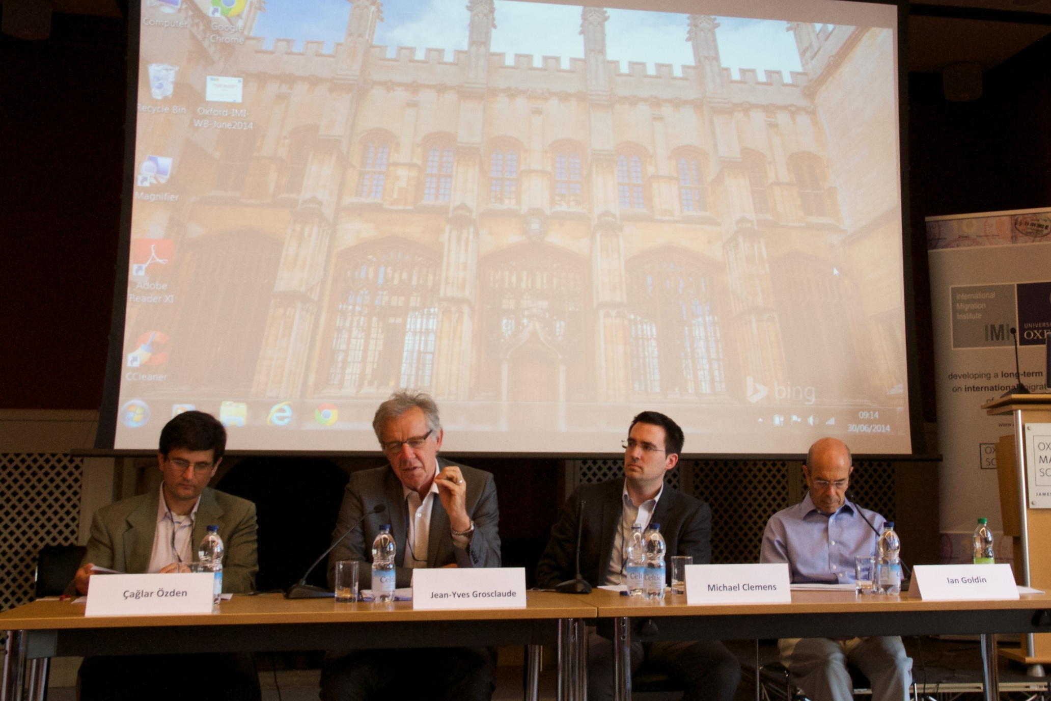 7th Migration & Development Conference: Greetings & Opening Remarks by Professor Ian Goldin (Director of the Oxford Martin School, University of Oxford); Michael Clemens (Senior Fellow, Center for Global Development); Jean-Yves Grosclaude (Executive Director of Strategy, Agence Française de Développement); and Çağlar Özden (Senior Economist, Development Economics Research Group, World Bank)